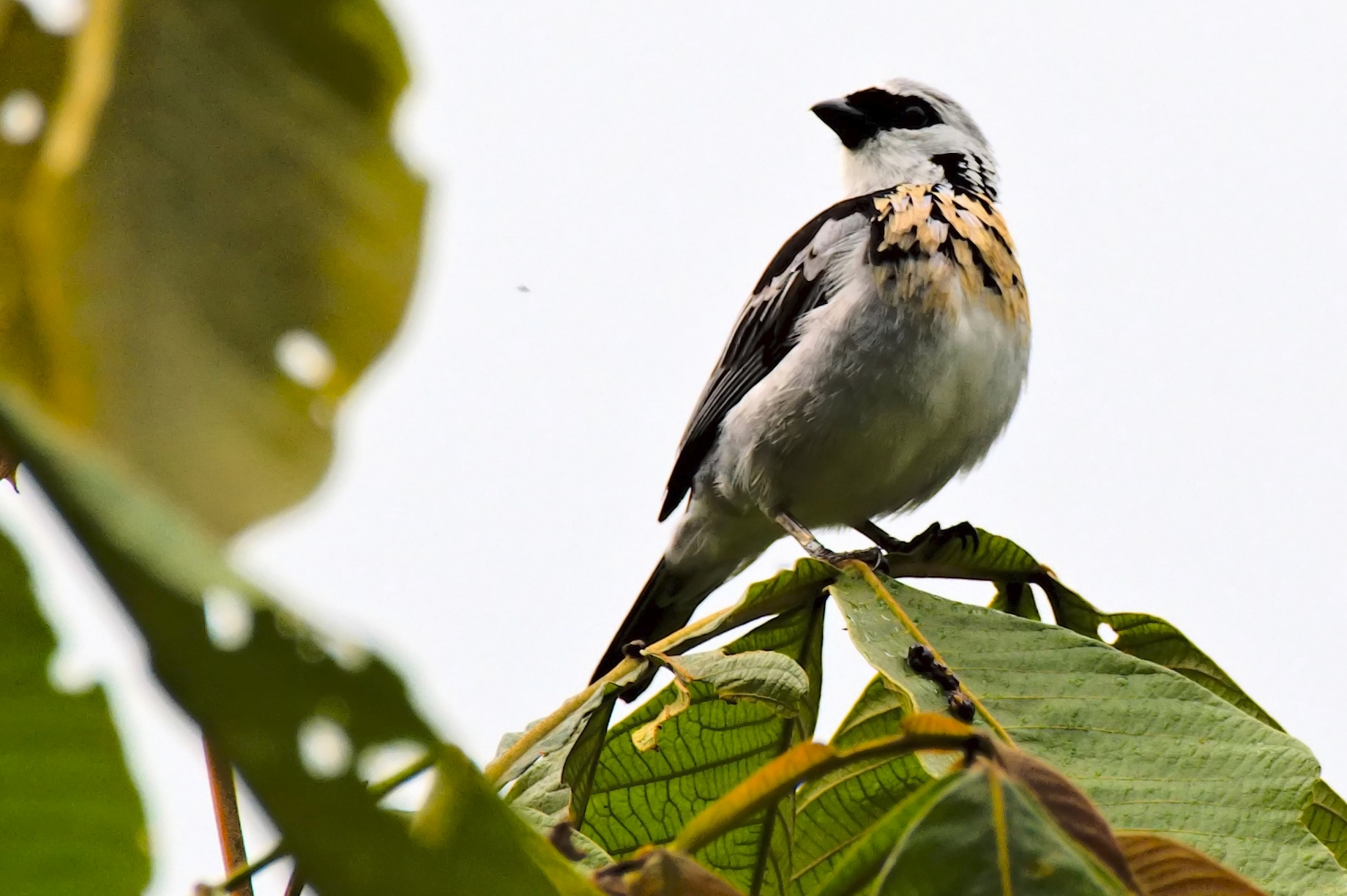 Grey-and-gold Tanager perched at the Anchicaya Valley, Colombia